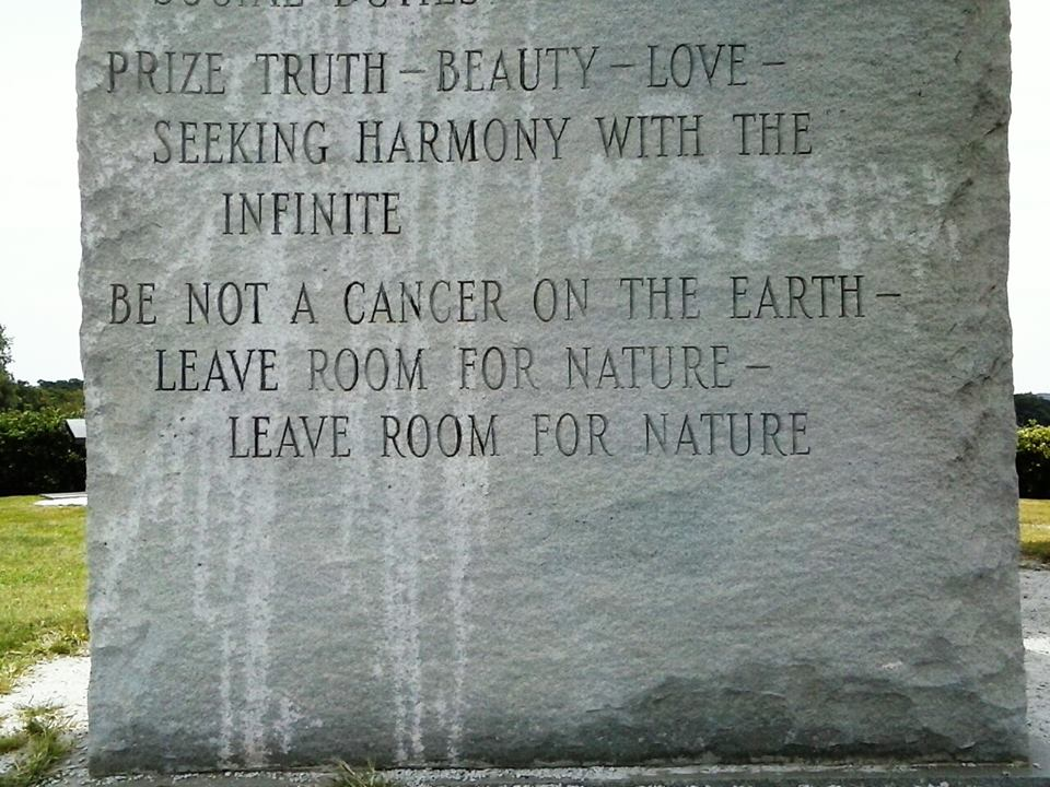 Georgia Guidestones